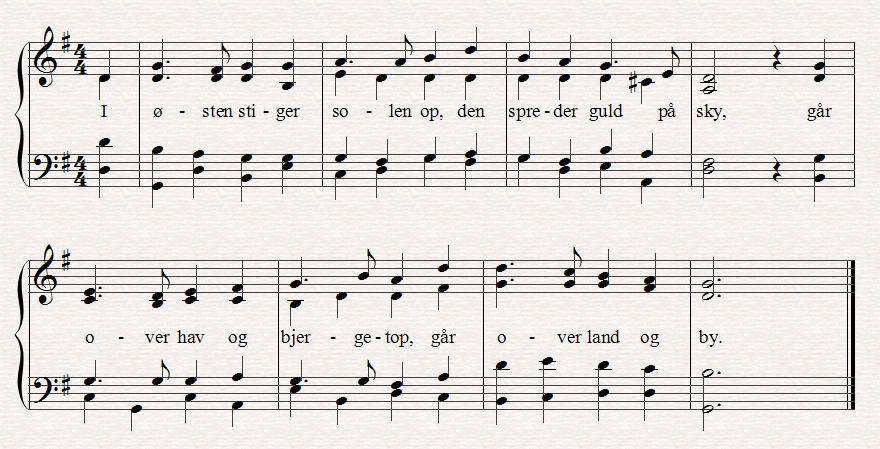 Tune and first stanza of the Danish hymn 'I østen stiger solen op'. Lyrics by B. S. Ingemann (1837) and music by C. E. F. Weyse (same year). The file is made with the program Sibelius 6.